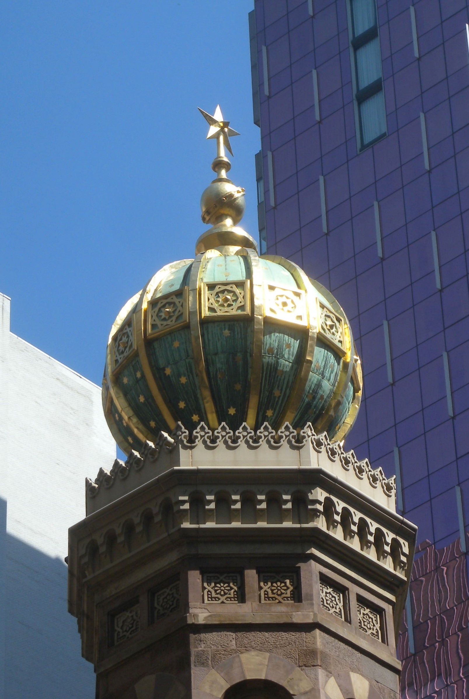 Looking north at epi of south tower of Central Synagogue on a sunny morning.